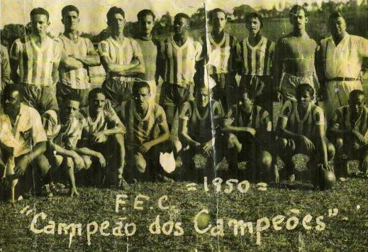 Time do Formiga Esporte Clube Campeão dos Campeões em 1950